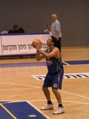 Yaniv Green